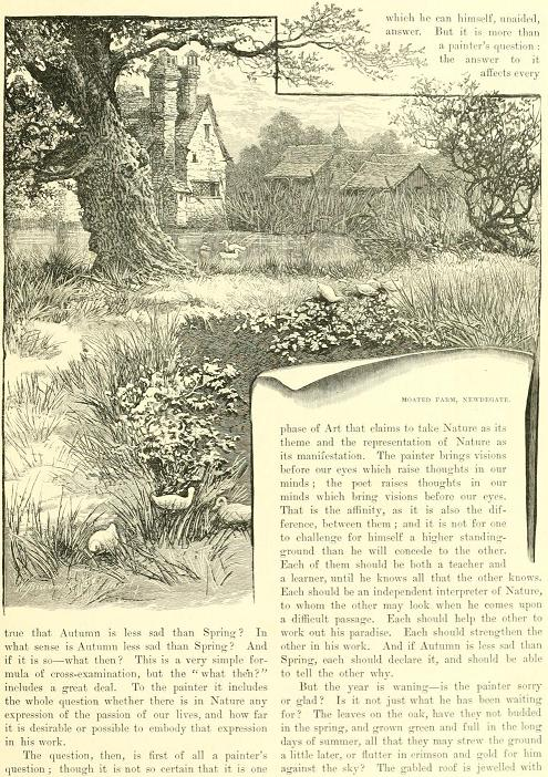 The Moated farm, Newdigate (Wood-engraving)